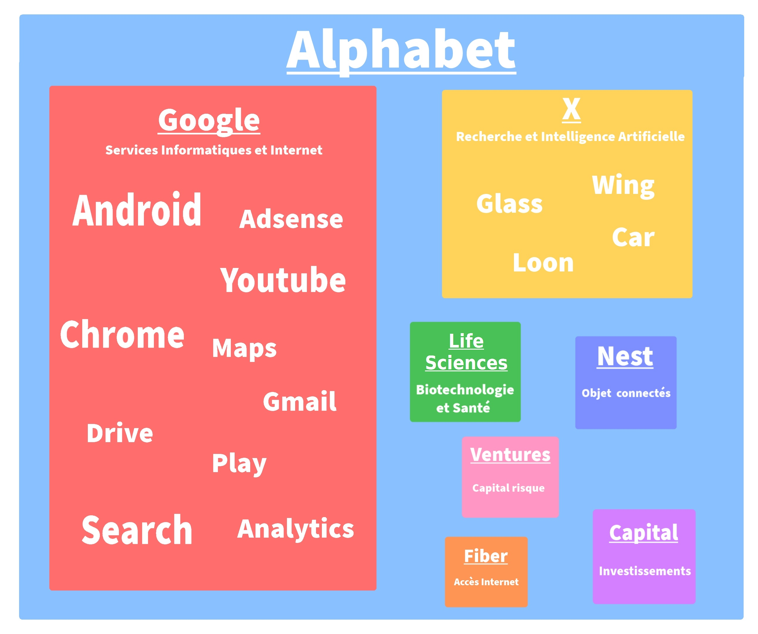 Infographic chart of the new company Alphabet